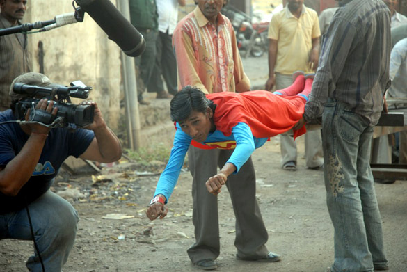 On the sets of the film Supermen of Malegaon (2012).